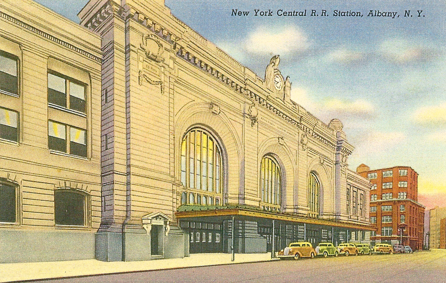 Postcard of Union Station in Albany, New York, United States